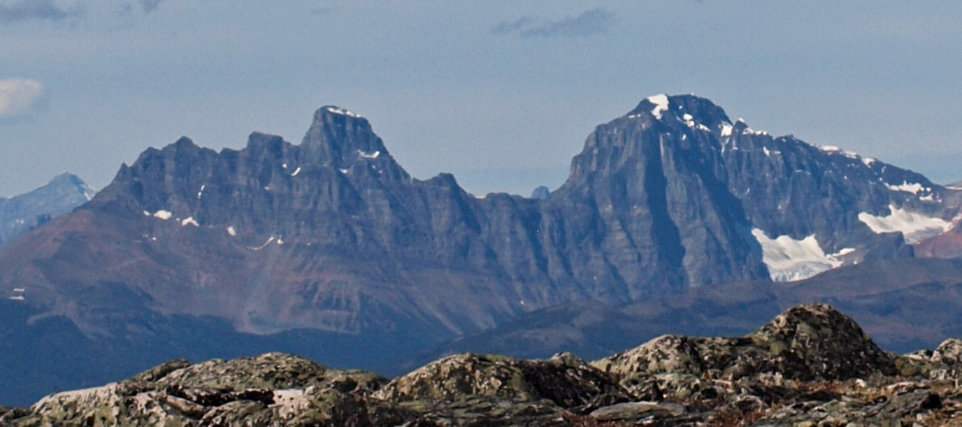 Mount Bridgland (left) and Derr Peak (right) seen from The Whistlers, Jasper National Park, Canada